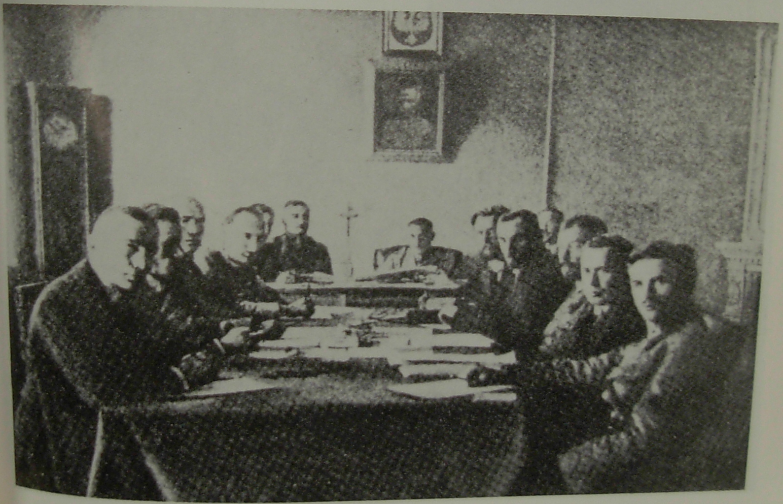 Suwalki Conference. Polish delegates at left, Lithuanian at right